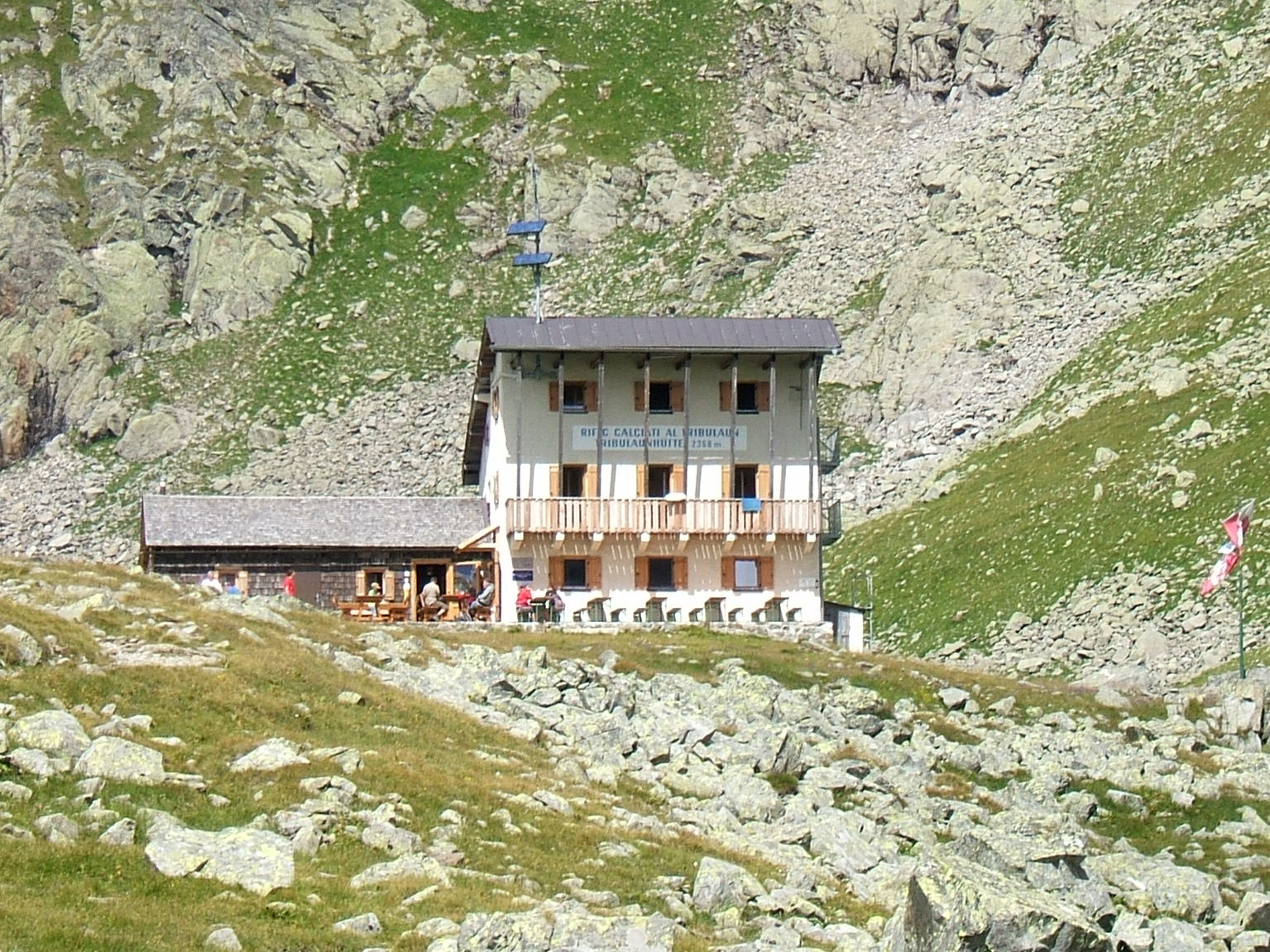 Tribulaunhütte aon last part of ascent